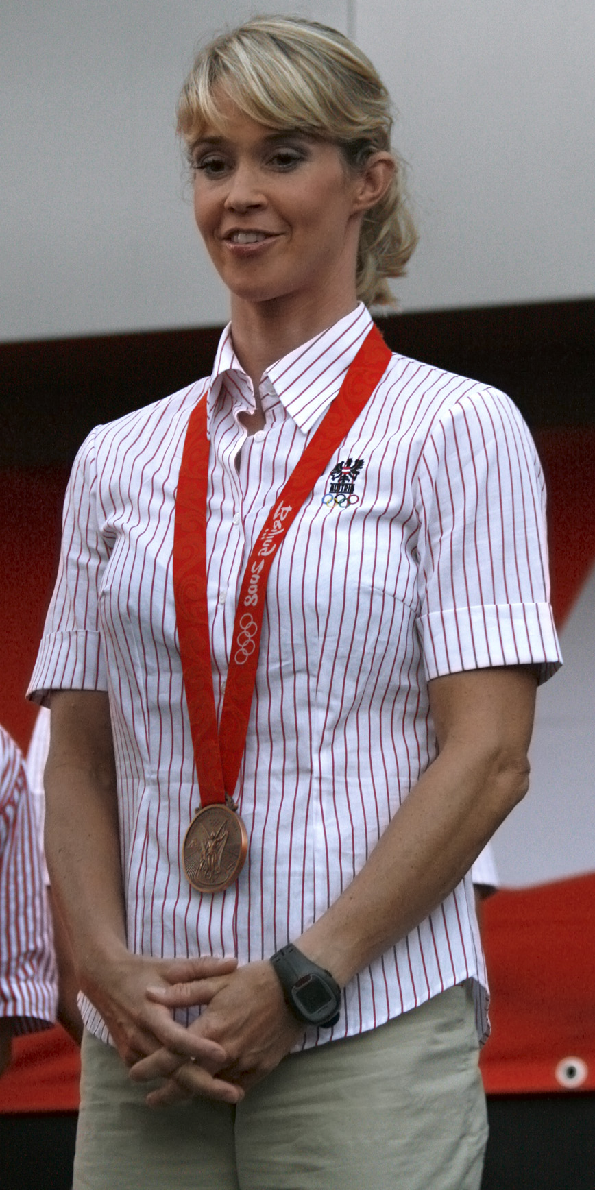 Austrian canoer Violetta Oblinger-Peters with the bronze medal she won at the 2008 Summer Olympics in Beijing.